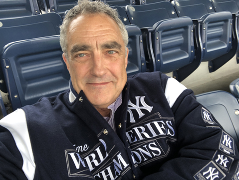 Dr Andrew Marks is a NY Yankee fan